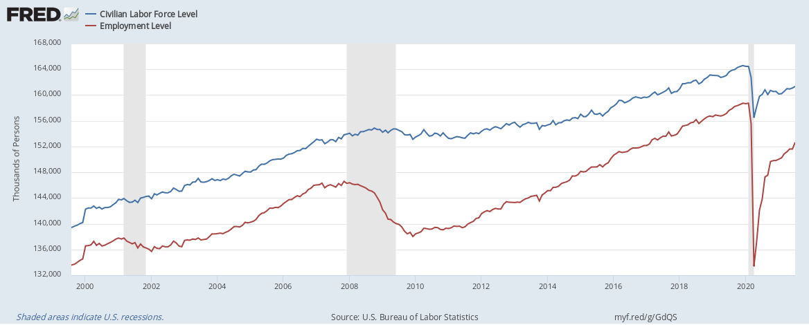 This file shows the number of persons in the U.S. labor force and the number employed. The gap is the number unemployed.